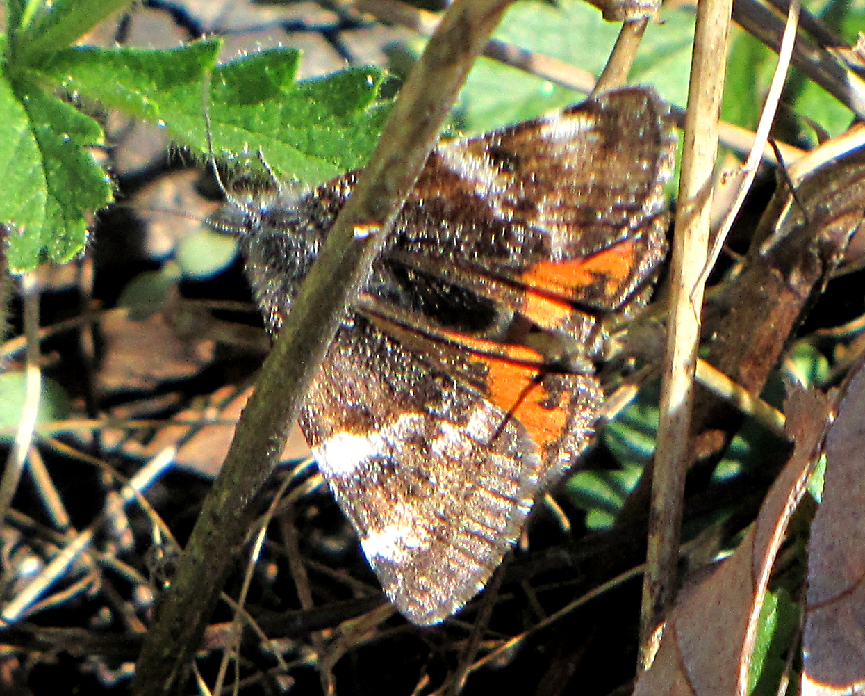 The Infant (Archiearis infans) moth, Ottawa, Ontario, Canada